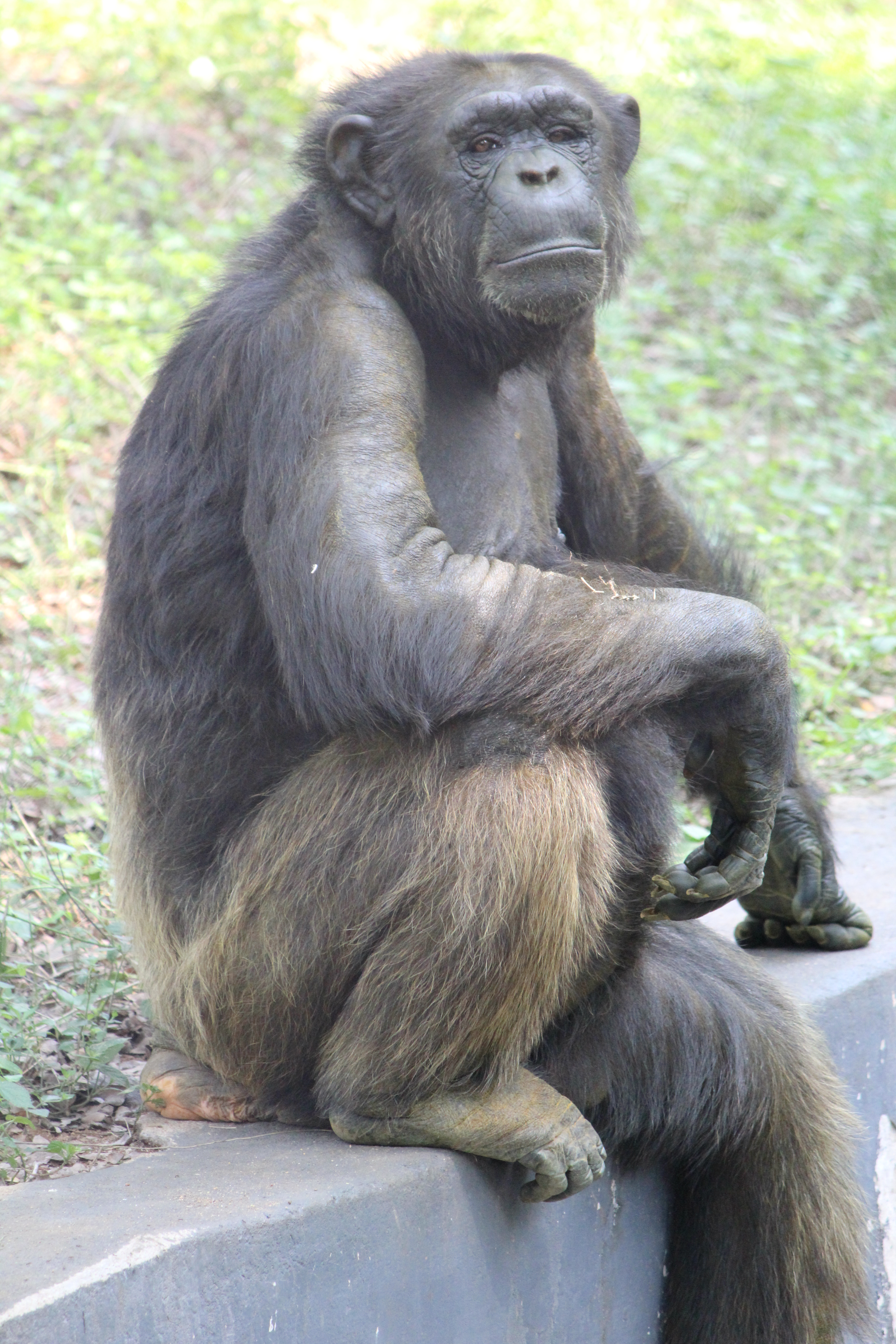 vandaloor zoo chennai